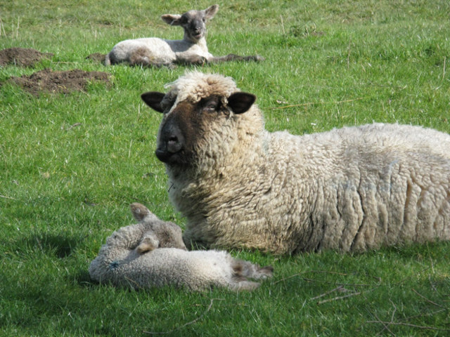 Cogges Manor Farm Museum, sheep. These Cotswold Sheep grow such long, curly manes that they are known as "Cotswold Lions". Several pairs of twin lambs were in the meadow with the ewes and "spare" triplets were being hand-reared in the barn.